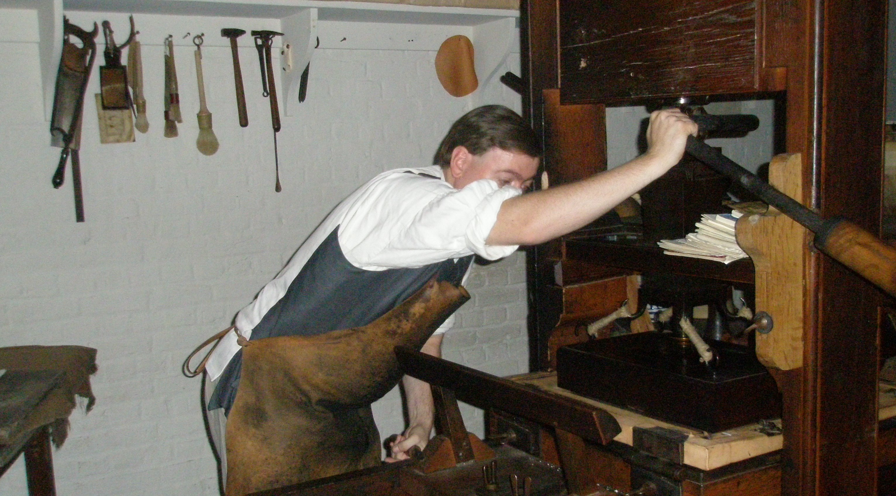 Printing at Colonial Williamsburg print shop